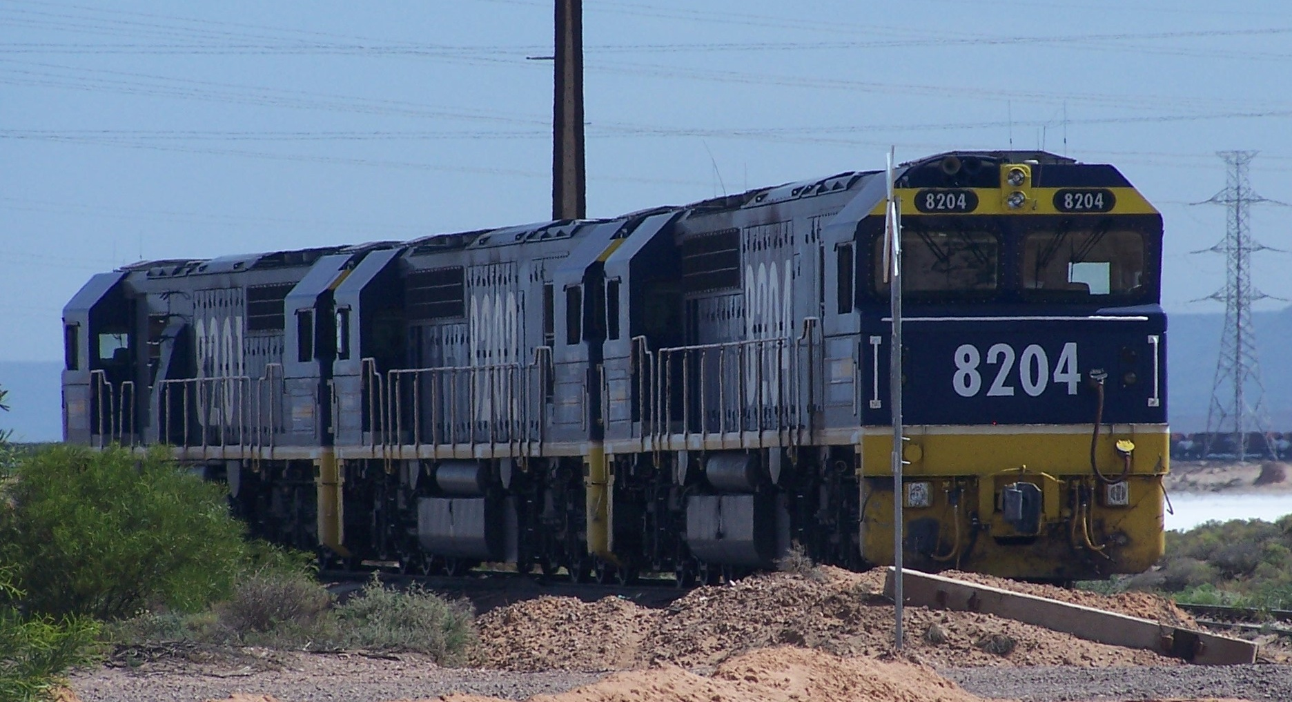 NSW 82 class locomotives 8204, 8202 and 8201 near the Port Augusta Power Station, South Australia, 2006